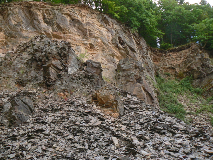 old slate open mining in Langhecke